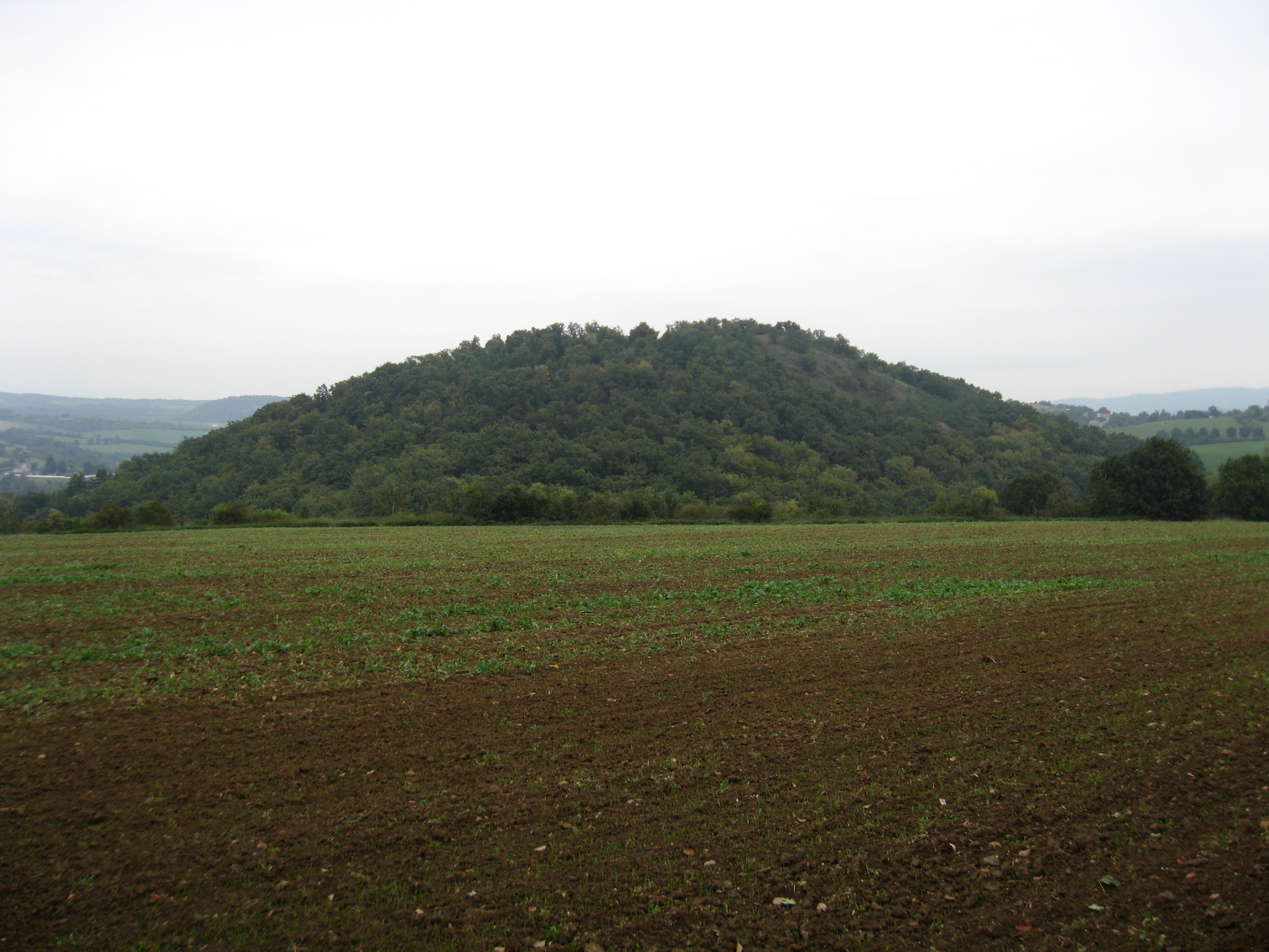 Paradis - Hill Chotyně near Rtyně nad Bílinou (Czech Republic), the Place where Castle Paradis lain